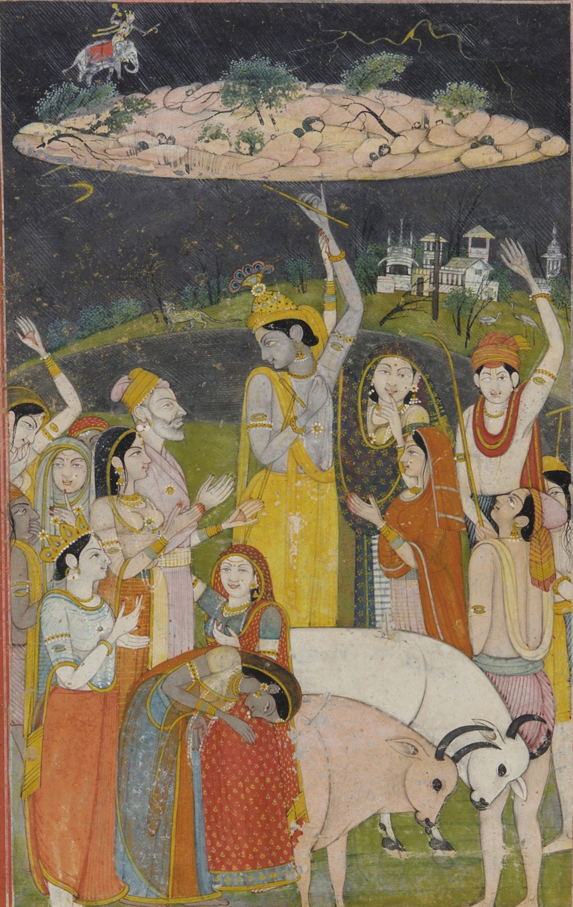 Krishna Holding Mount Govardhan to protect the inhabitans of Vrindavana from natural disasters ca. 1790 Color on paper H: 25.3 W: 17.1 cm Attributed to Mola Ram (1760-1833)